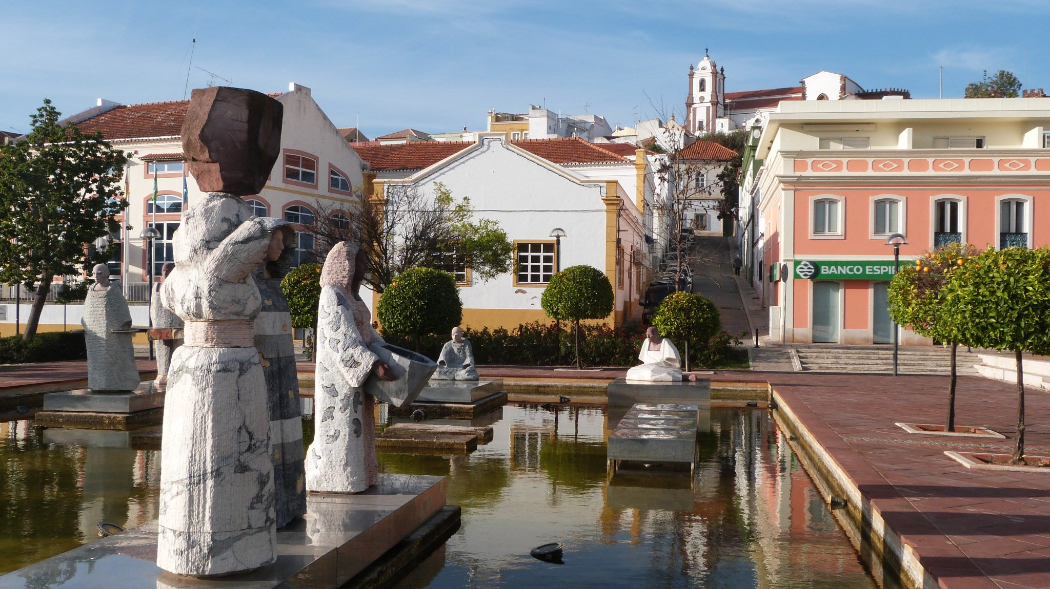 Square name after the king that won Silves in the 11th century and where he remained for several years. He devoted himself to poetry, music and song. Inspired by the beauty of the city, wrote beautiful poems. This square, which extends to the Arade River, is a place where several cultural activities are held during the summer If you like my photos please help support my hobby and click on my video and watch it.. Many Thanks Peter